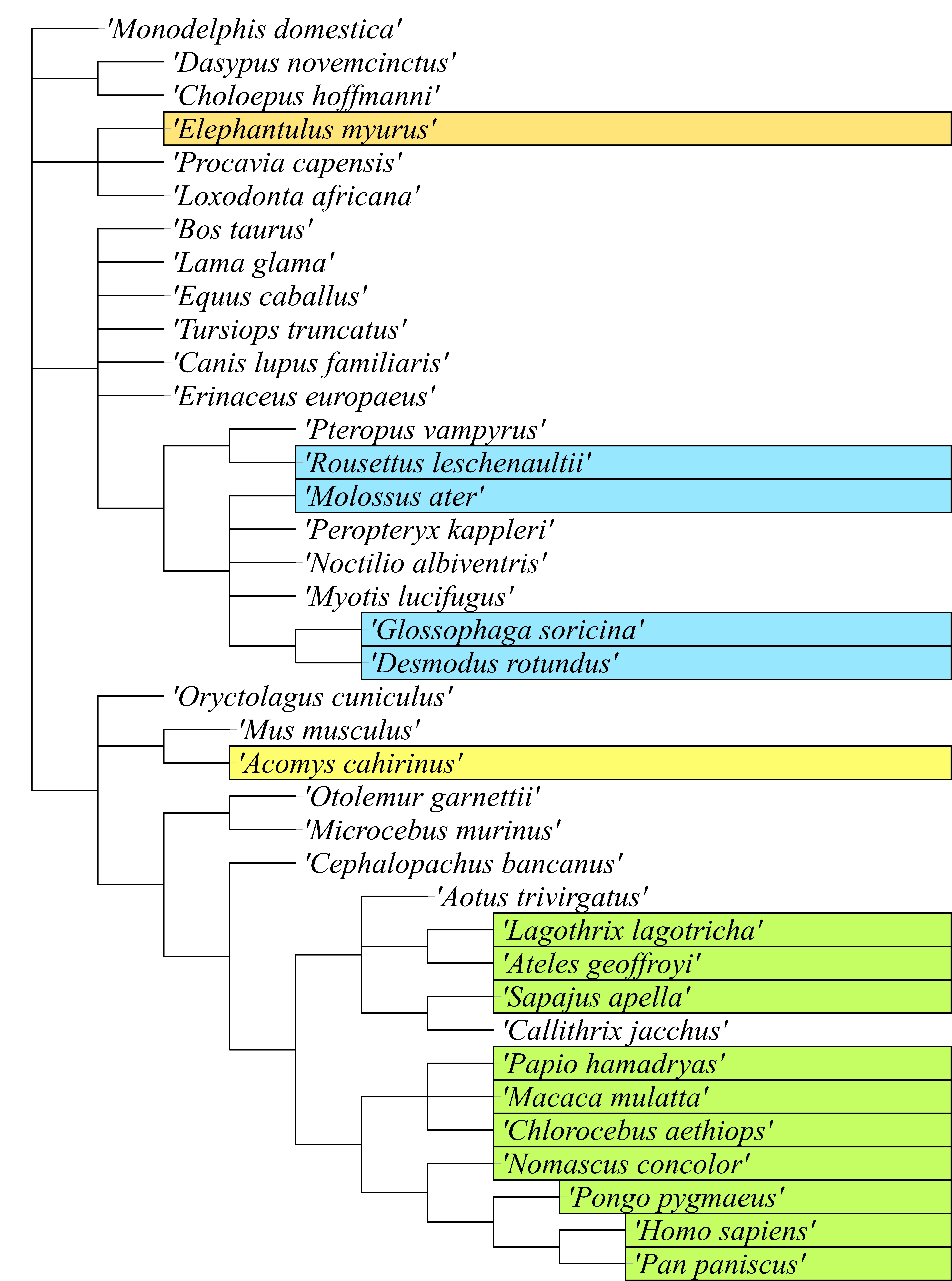 Phylogenetic tree of known menstruating species. Colors indicate different evolutionary events causing spontaneous decidualization.